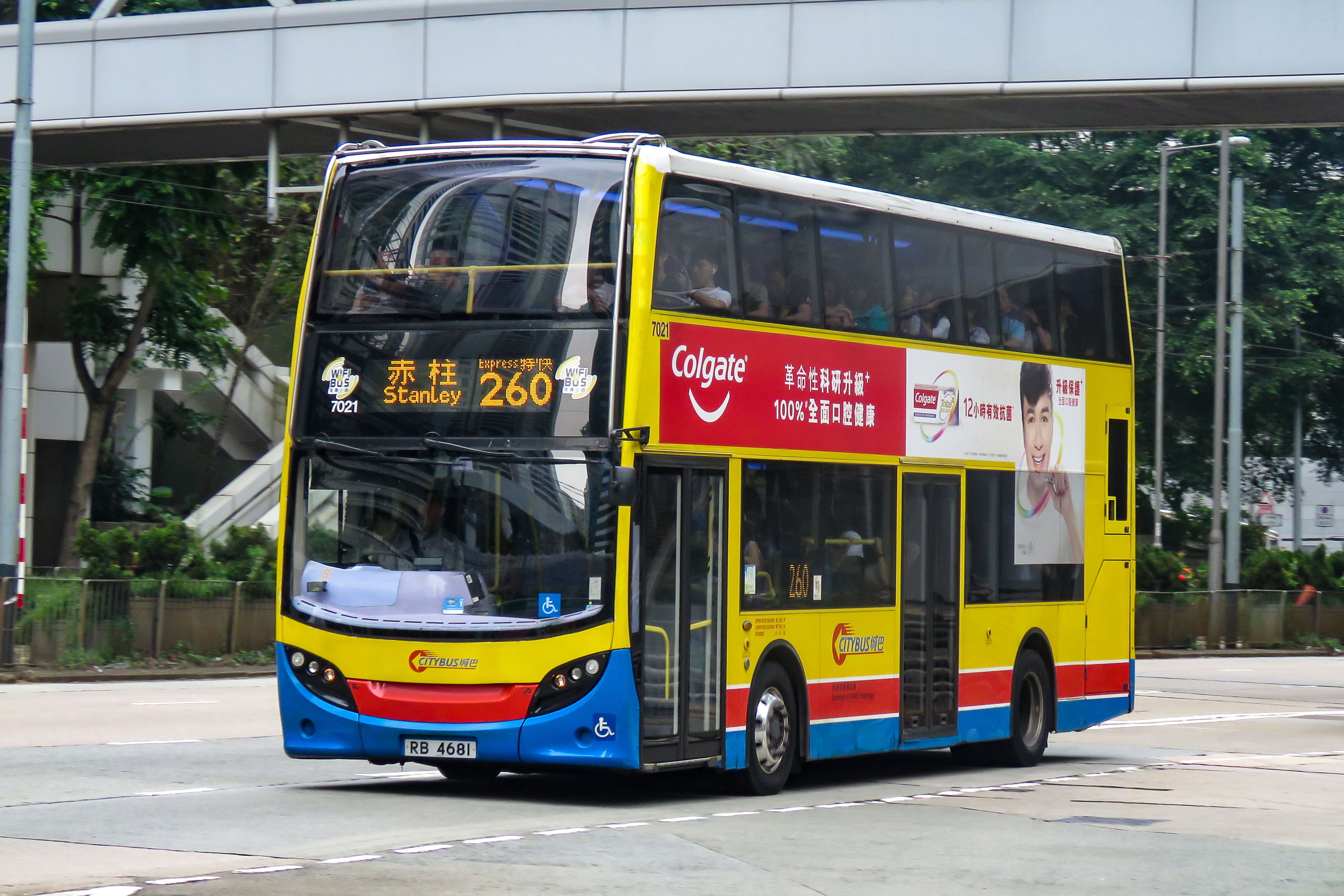 Even Stanley is crowded...